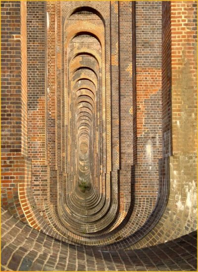 Looking along the length of the Ouse Valley Viaduct from the north end, highlighting the oblong voids within the arches.